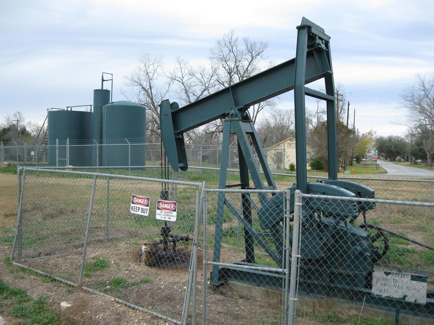 Photo shows an oil pump jack in Iago, Texas, in the Boling oil field. The equipment sits a few yards from FM 1301. The view is roughly north.